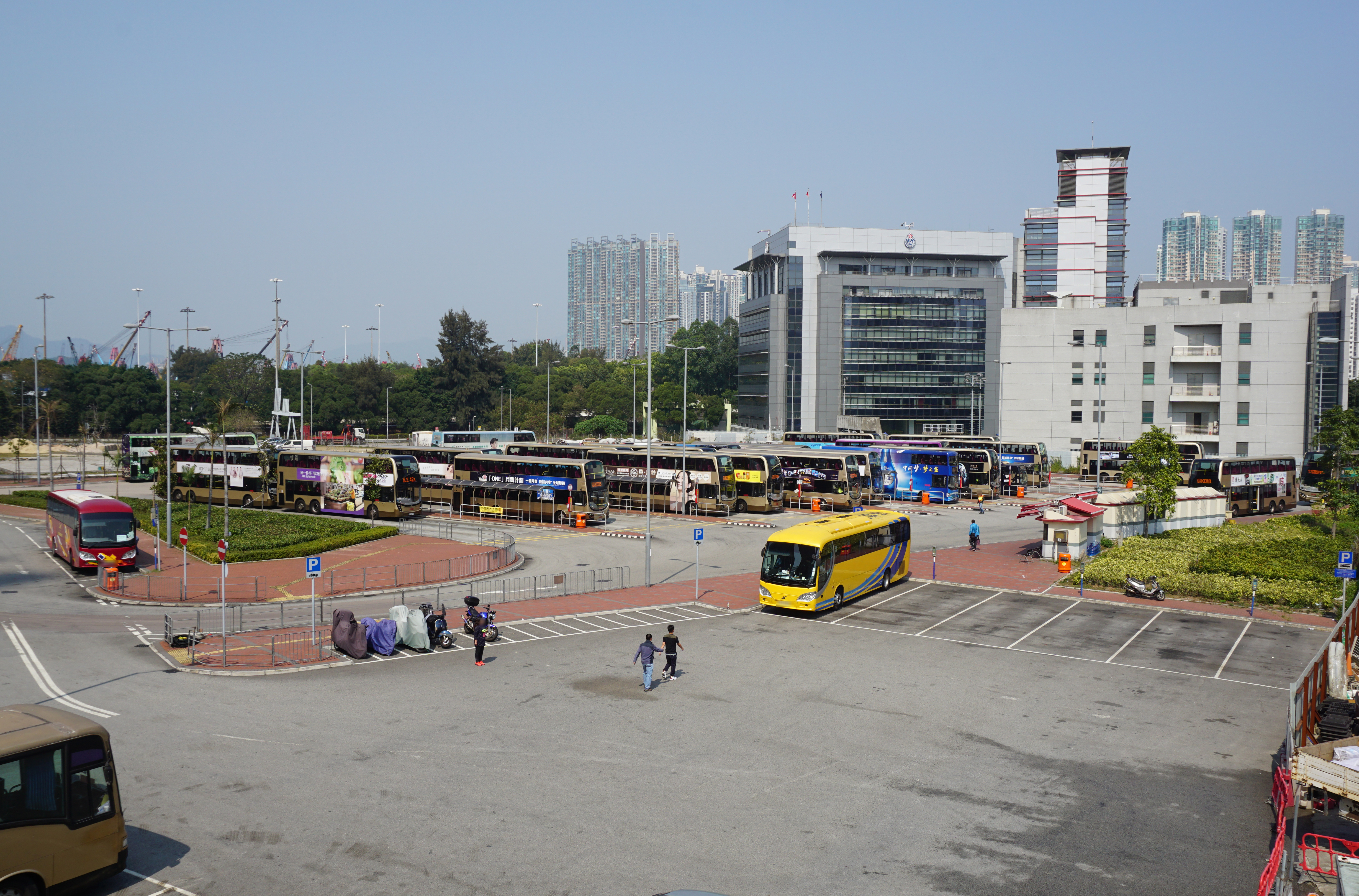 To Wah Road Bus Terminus in Jordan, Hong Kong.